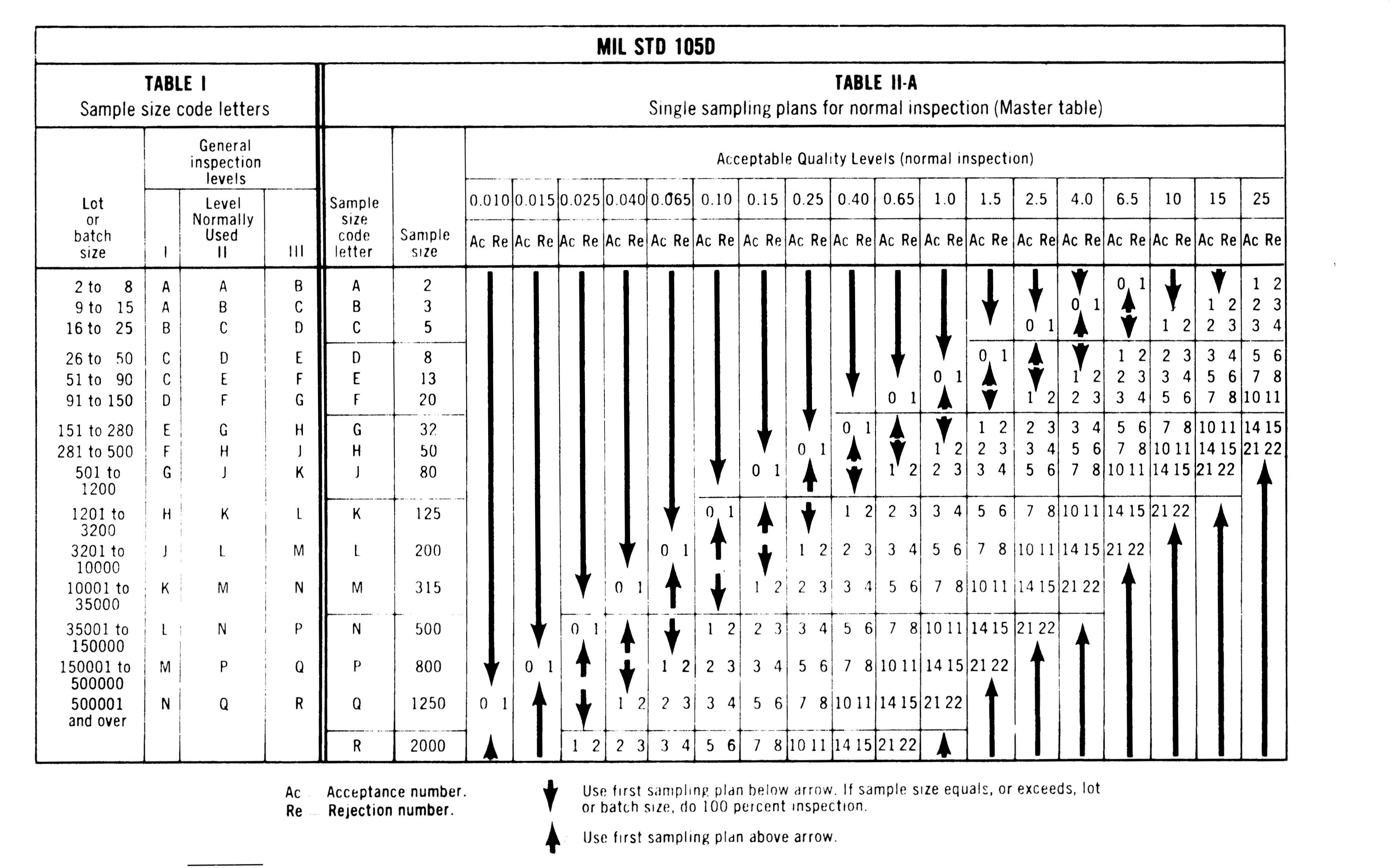 scanner copied, MIL STD 105 D Quick reference card